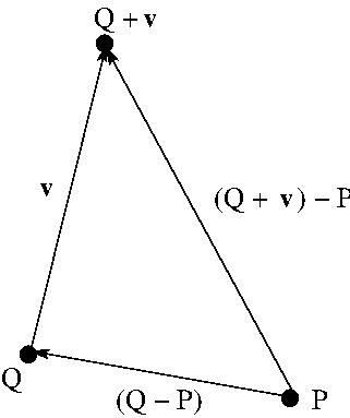 Relation between sum of vectors and vector as difference between points in affine space.